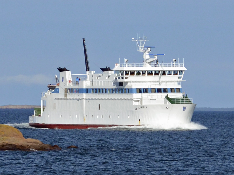 M/S Alfågeln, an ferry operated by Ålandstrafiken in the Aland islands, Finland